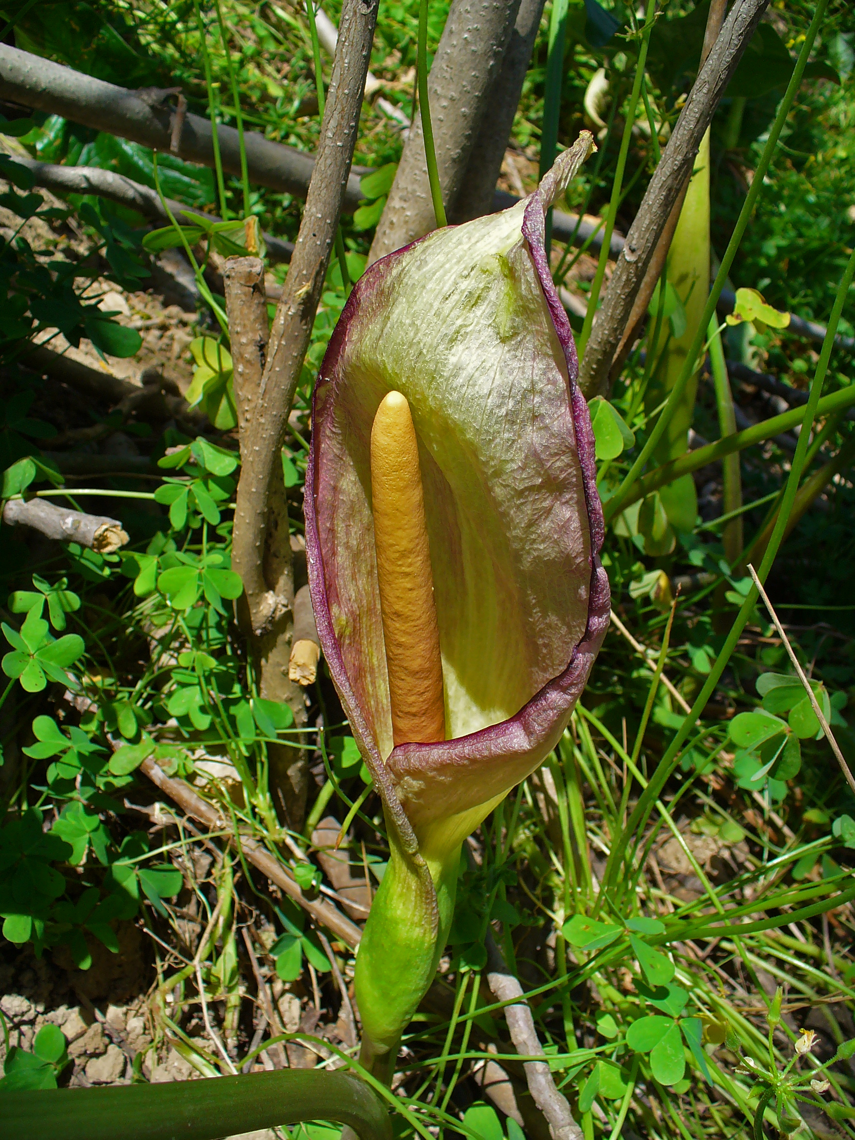 Arum concinnatum, Araceae, Lords and Ladies, inflorescence; Knossos, Crete, Greece.